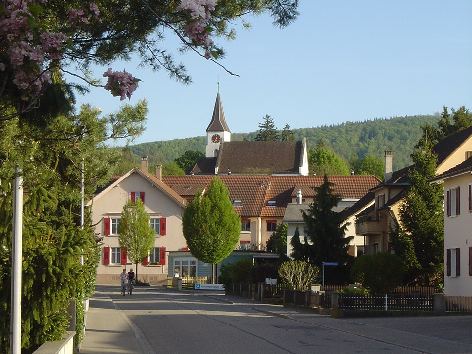 Railway Station Street in Möhlin. In the background the Old Catholic church